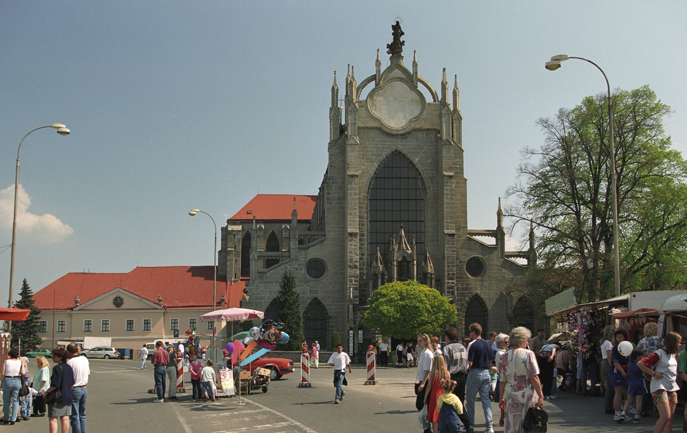 Gothic church of Our Lady, Sedlec